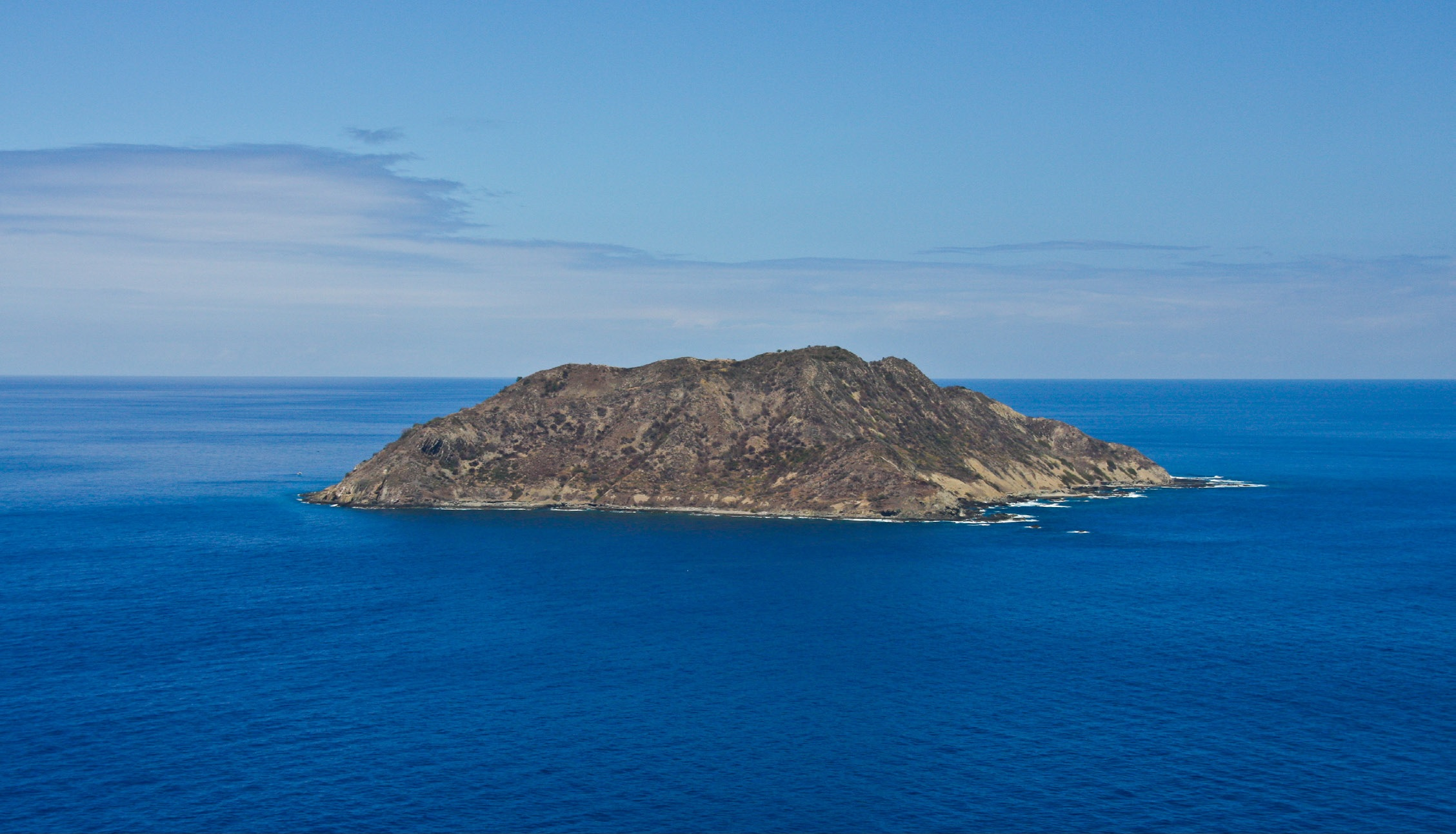 Desecheo Island, Mona Passage, west off Puerto Rico, oblique aerial photo